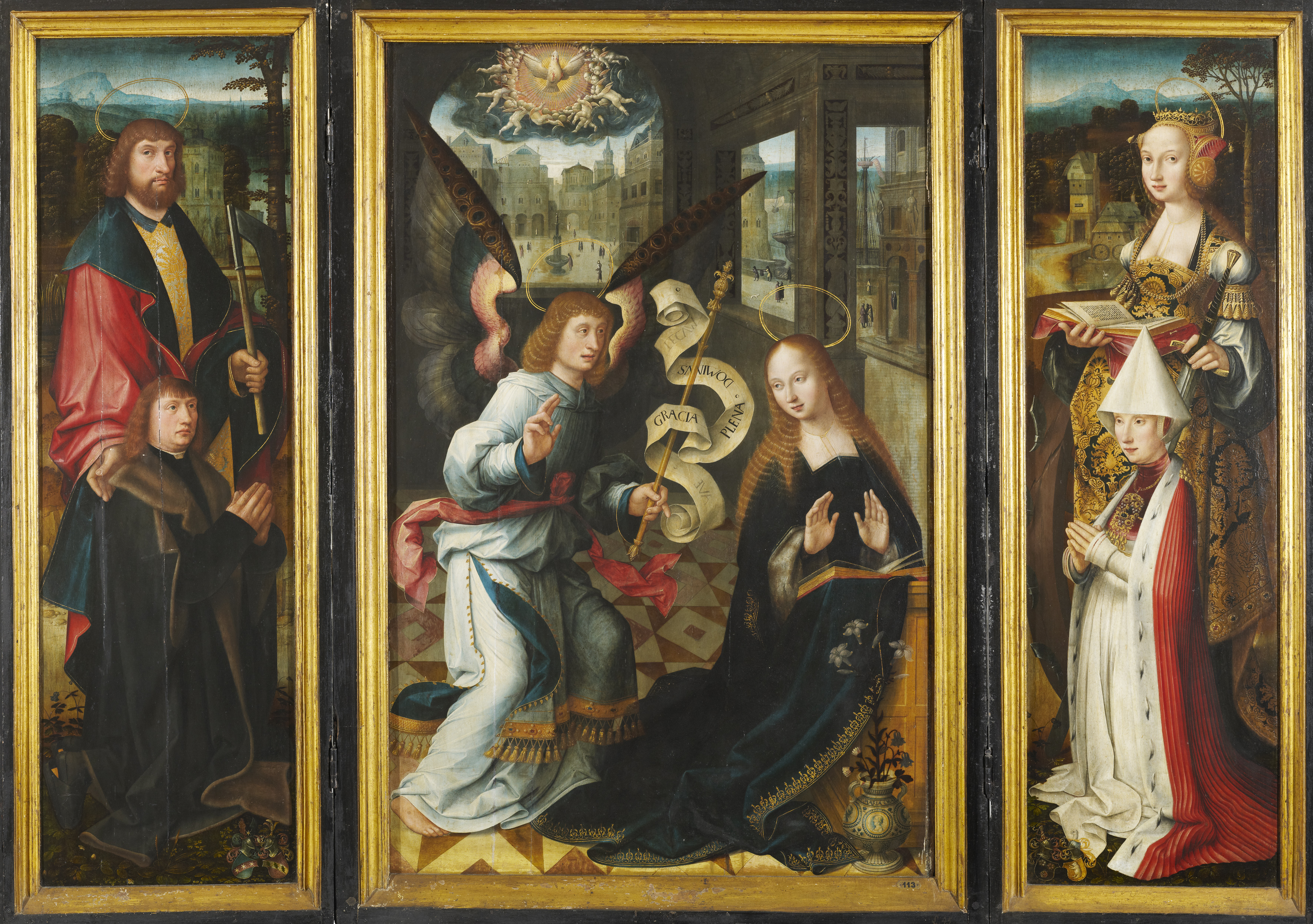 Triptych: central panel: The Annunciation; wings: Portrait of Herman Plönnies, Ratsherr of Lübeck, with Saint Matthew; and Portrait of his wife, Ida Greverade, with Saint Catherine of Alexandria; outer faces: Saint Christopher carrying the Christ Child; and Saint Anthony Abbot